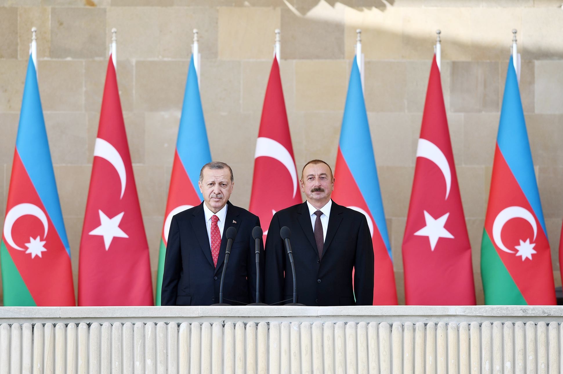 Ilham Aliyev and Recep Tayyip Erdogan attended the parade dedicated to 100th anniversary of liberation of Baku